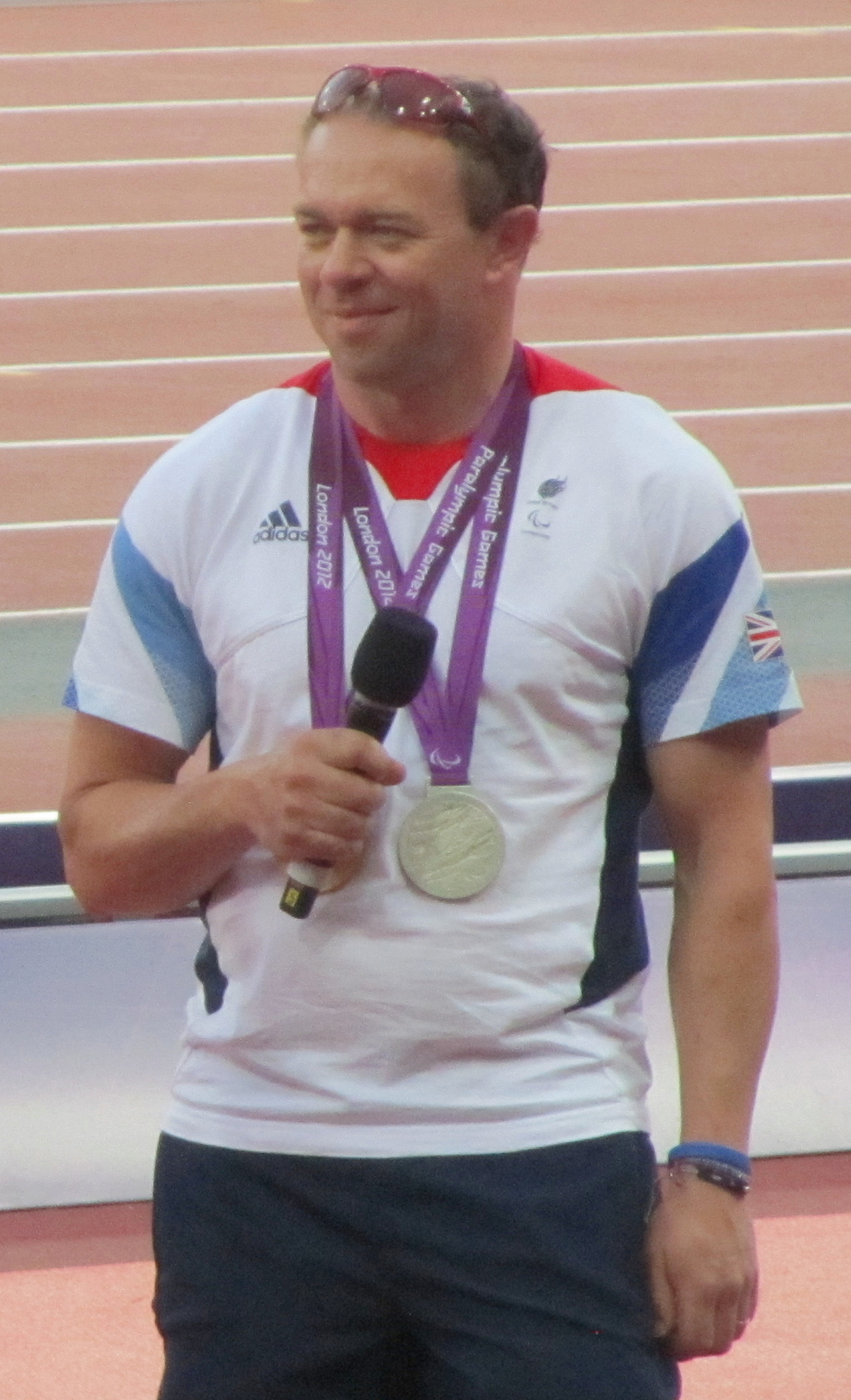 Sarah and Barney Storey being interviewed at the Olympic Stadium